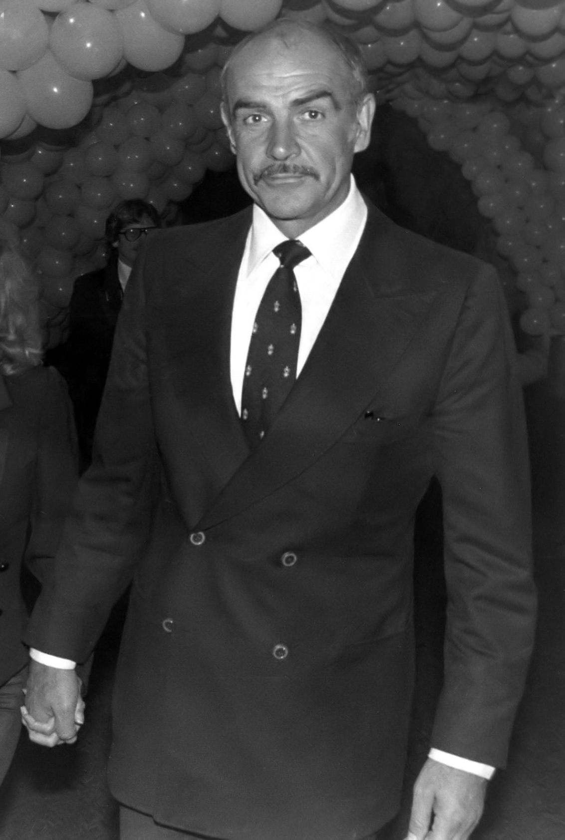 Sean Connery at the private party after the premiere of the movie Seems like old times. Cropped and slightly enhanced from the original, removed some noise and scratches.